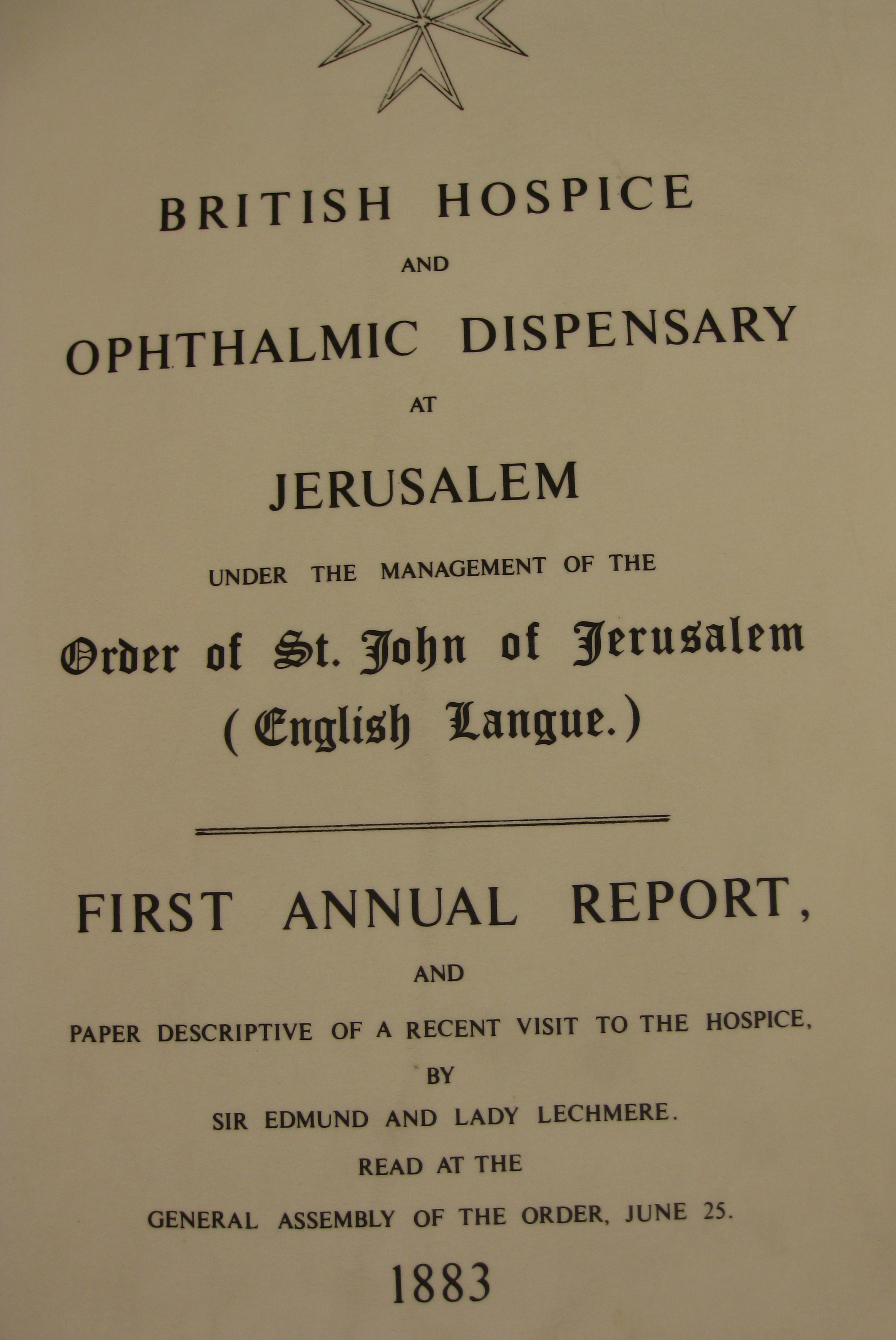 The front cover of an internal report written at the end of the first year of the operation of the St. John's Hospital - In display at the Mount Zion Hotel